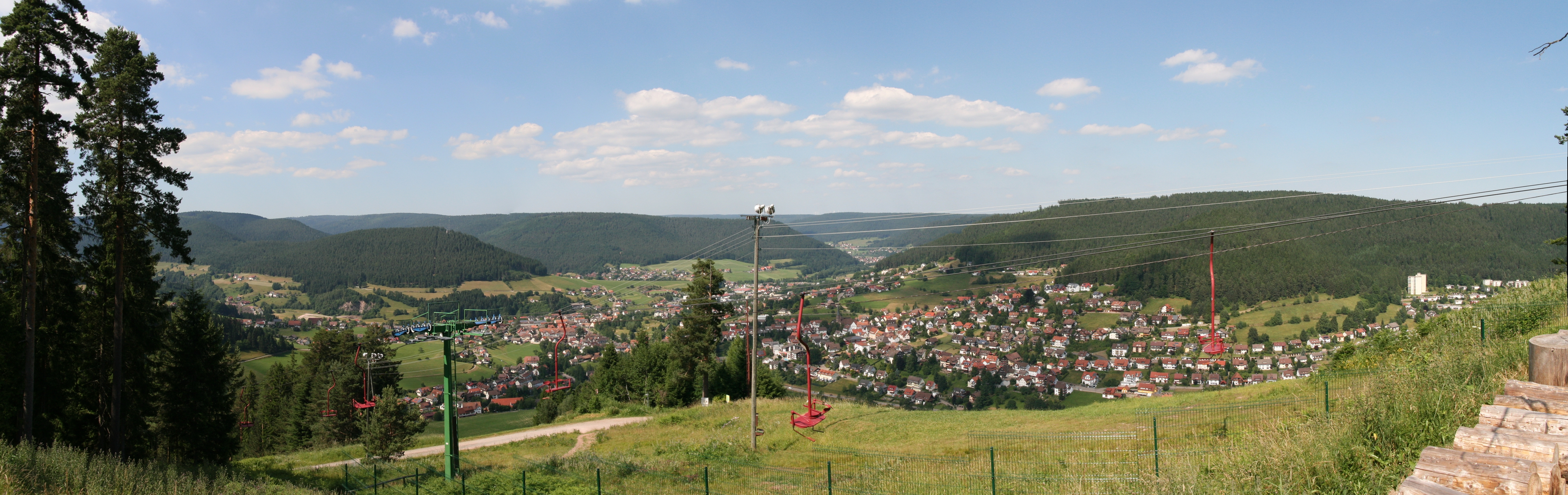 Baiersbronn, Black Forest, Germany; view from Glasmännlehütte. Panorama composed of four images.